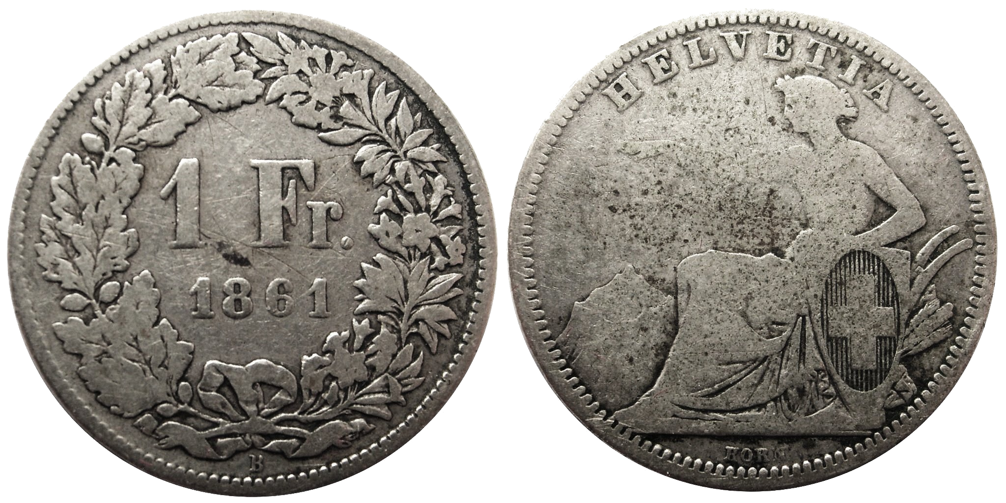 1 franc switzerland 1861 silver sitting helvetia